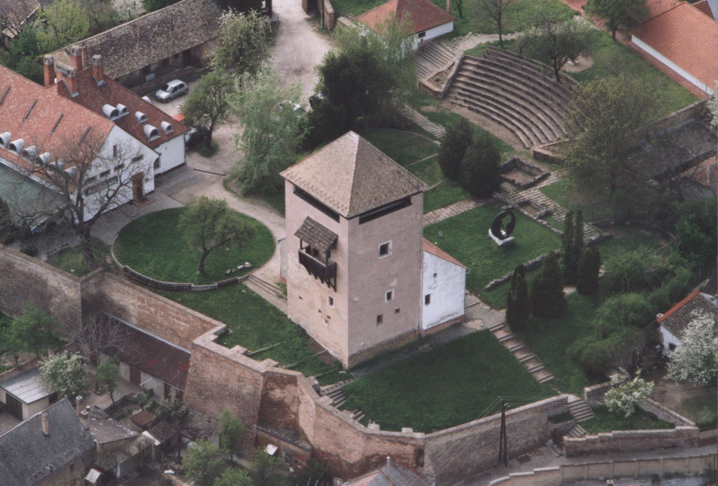 Dunaföldvár - Hungary - Europe.